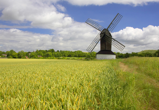 Pitstone Windmill Pitstone Windmill, one of the oldest postmills in Britain, dating from 1627 and restored entirely by volunteers.